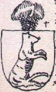 Coat of arms Kot Morski from Herby polskie... by Antoni Swach